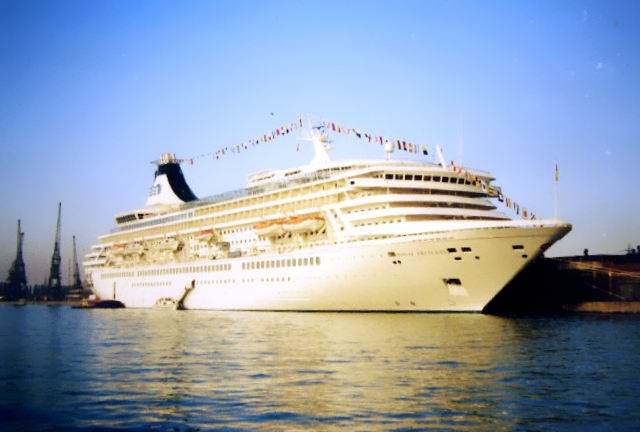 Southampton Cruise Liner Terminal. The Royal Princess tied up at the Cunard dock before its maiden voyage. Dock cranes further upstream. IMO Number: 9210220 MMSI Number: 310530000 Callsign: ZCDV2 Length: 180 m Beam: 24 m Aerial